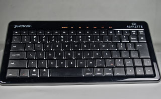 This file gives a visual presentation of the bluetooth keyboard.